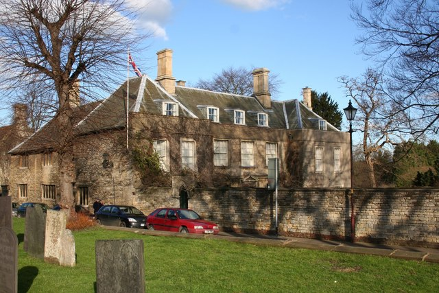 Grantham House National Trust owned property open for a few days each year . Grantham House has a core of c1380 with Elizabethan and 17th century additions